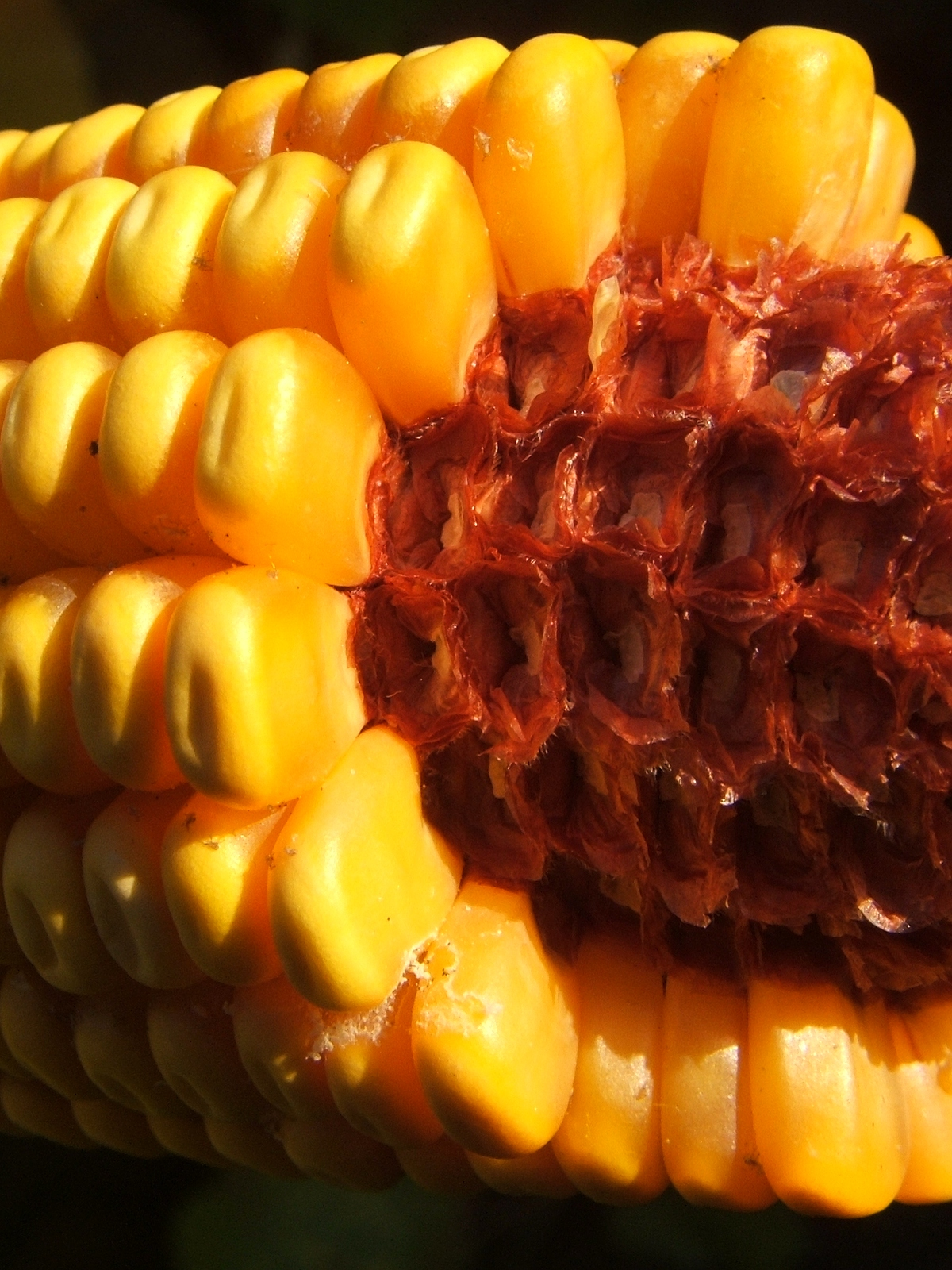 Shelled corncob